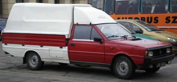 FSO Polonez Truck LB produced in 1992.